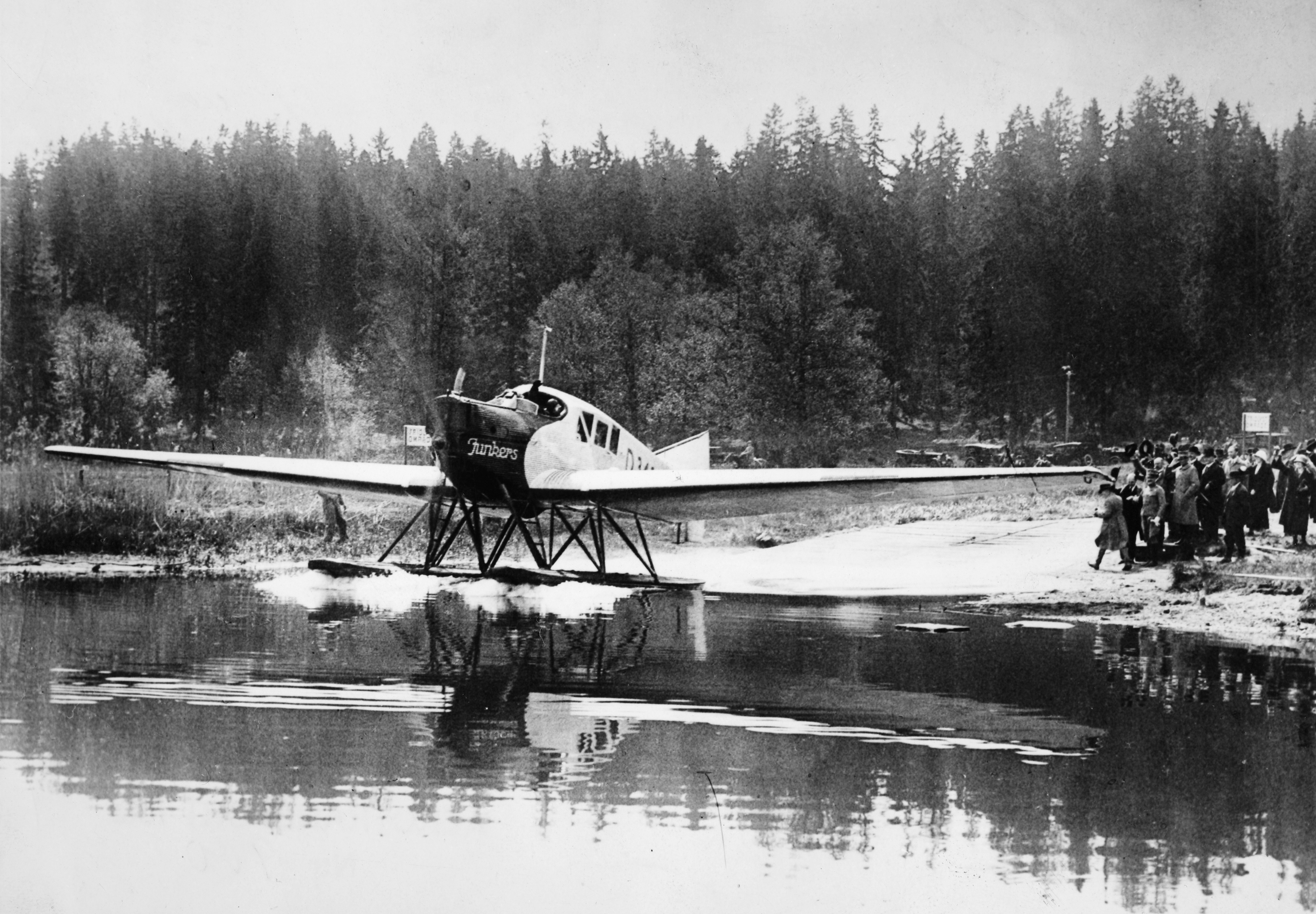 Mother company AB Aerotransport, ABA 1924-03-27. The first airport, Lindarängen, Stockholm. The first four passengers are boarding Junkers F 13 to Helsinki on 1924-06-02. SAS Nytt no. 21/1964. ABA-First take off from Lindarängen with four passengers to Helsinki, but was forced to land on the Åland sea.